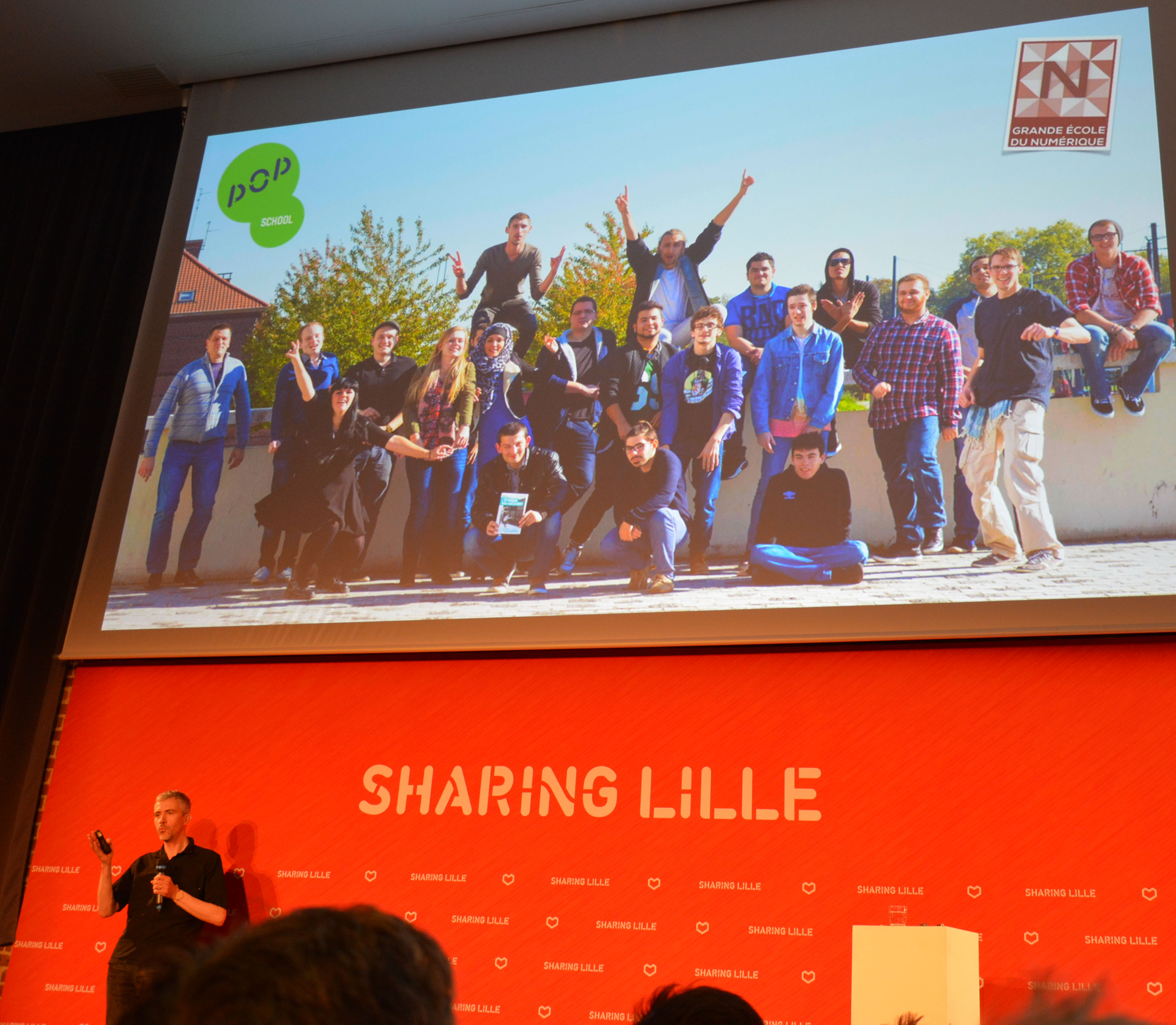 Emmanuel Vandamme (Mutualab, Lille) in "Sharing Lille" 2016-04-21 (day dedicated to the collaborative economy across territories). This event was held in Lille Euratechnologies (in Region Nord-Pas-de-Calais and Picardy called "Hauts de France"